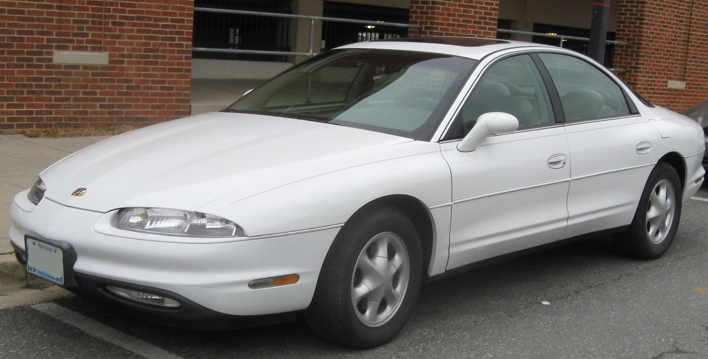 1995-1999 Oldsmobile Aurora photographed in College Park, Maryland, USA.